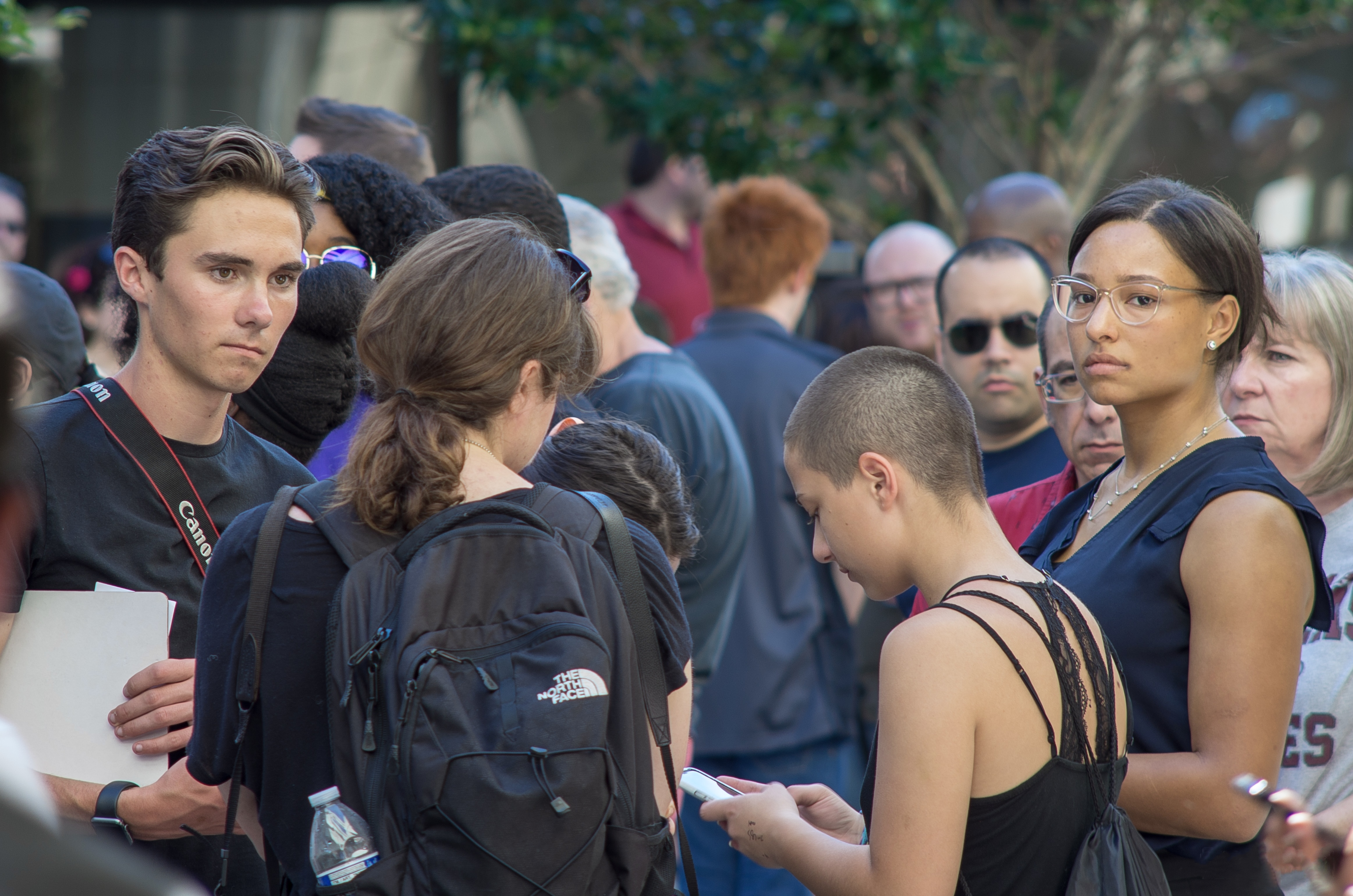 Emma Gonzalez and David Hogg at the Rally to Support Firearm Safety Legislation in Fort Lauderdale on February 17, 2018. Broward Young Democrats chair Chelsea Lunn pictured far right.